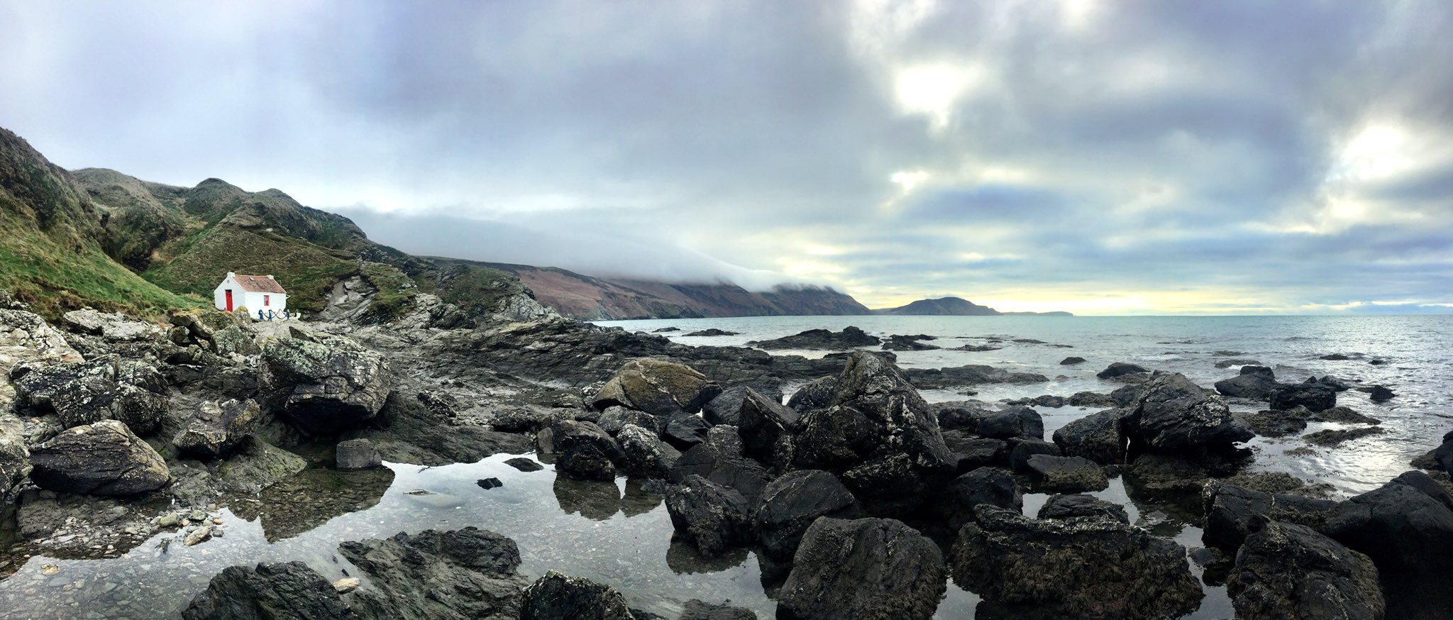 Looking South towards the Calf of Man from Niarbyl Bay, Isle of Man.